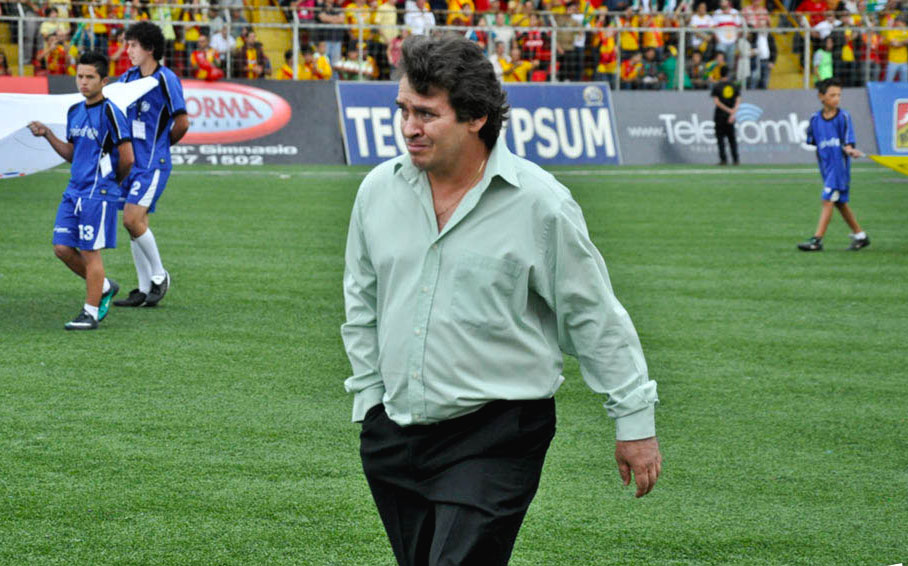 Óscar Ramírez during the 2011 Invierno Final match.